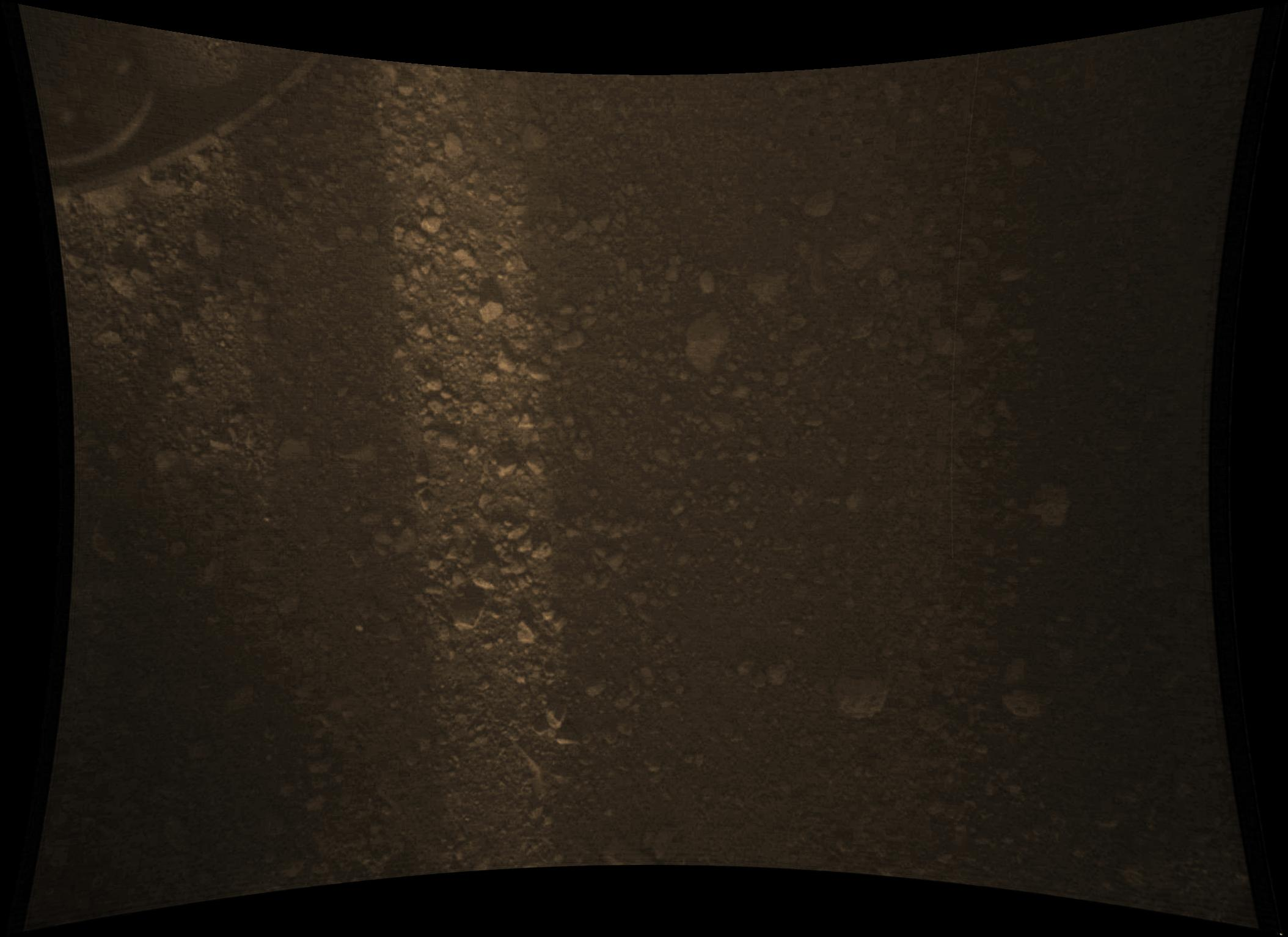 This full-resolution color image from NASA's Curiosity Rover shows the gravel-covered surface of Mars. It was taken by the Mars Descent Imager (MARDI) several minutes after Curiosity touched down on Mars. The camera is about 30 inches (70 centimeters) from the surface as the rover sits on the ground. The image pixel scale is about 0.02 inches (0.5 millimeters), but the camera is slightly out of focus at this distance, so the actual ground scale is about 0.06 inches (1.5 millimeters). A sliver of sunlight passing through the structure of the rover illuminates the surface. The largest rock fragment in the image is about 2 inches (5 centimeters) long. Most are much smaller. A rover wheel is visible at the top left. This is the 1,008th image that MARDI took. The original image from MARDI has been geometrically corrected to look flat. Curiosity landed inside of a crater known as Gale Crater.